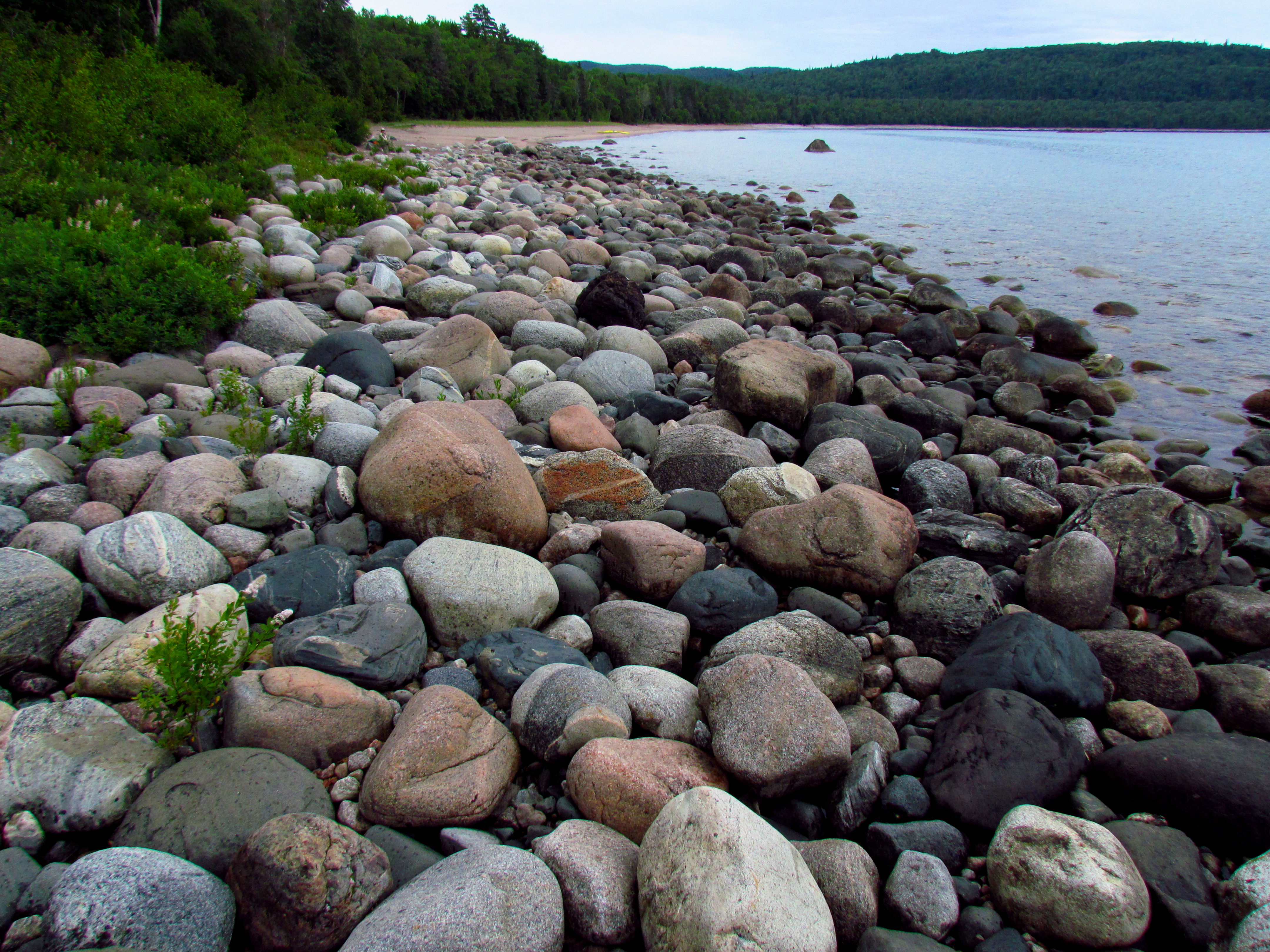 Gargantua Harbour, Lake Superior Provincial Park, Wawa, Ontario, Canada